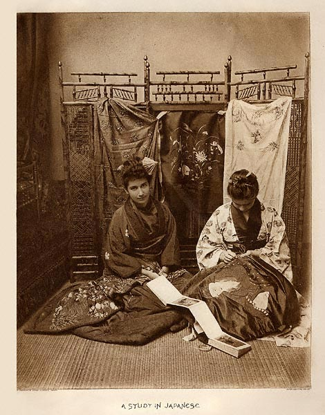 "A Study in Japanese", 1890 photogravure by Catharine Weed Barnes, 9.5 x 7.5 inches, published in the New York Photo-Gravure Company's Sun and Shade